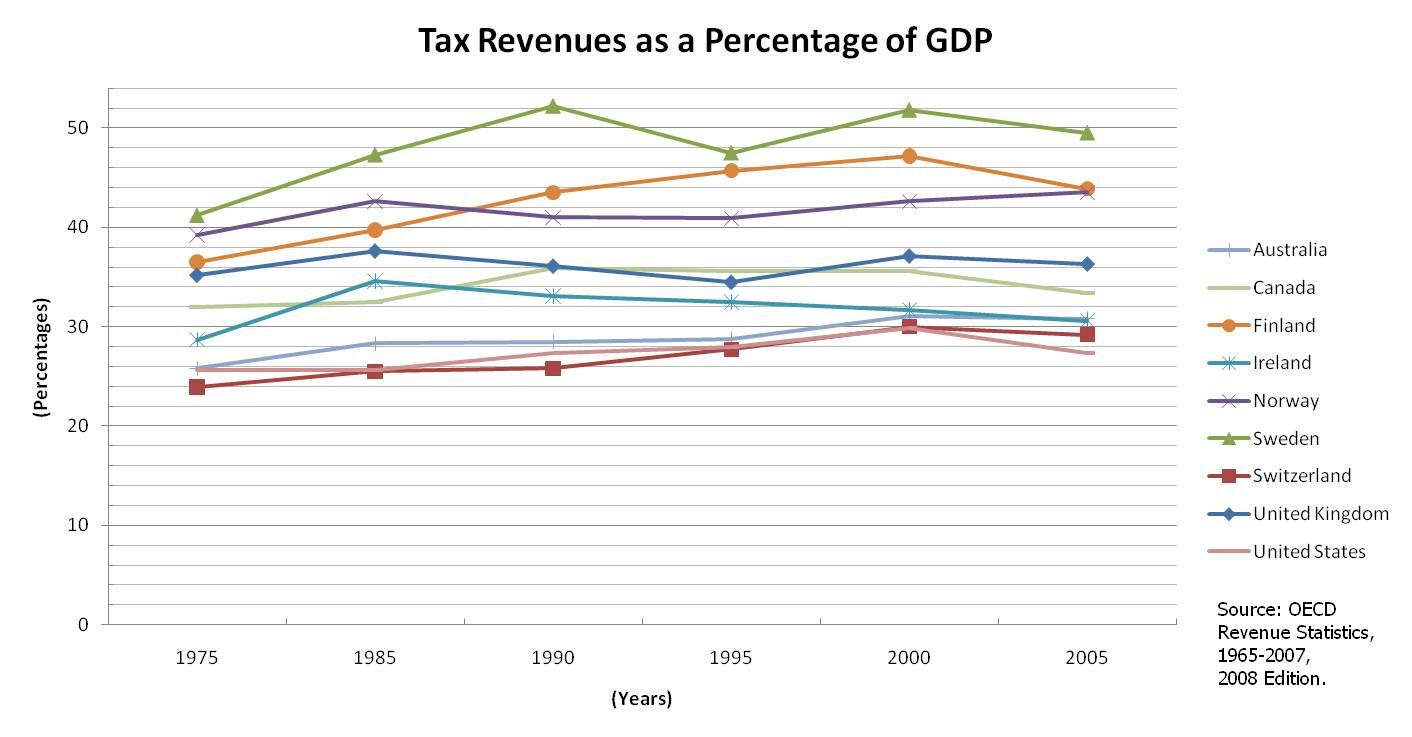 This image portrays total tax revenue as a percentage of GDP for nine nations for the years 1975, 1980, 1985, 1990, 1995, 2000, and 2005. The countries included are Australia, Canada, Finland, Ireland, Norway, Sweden, Switzerland, the United Kingdom, and the United States. Further information is available here at